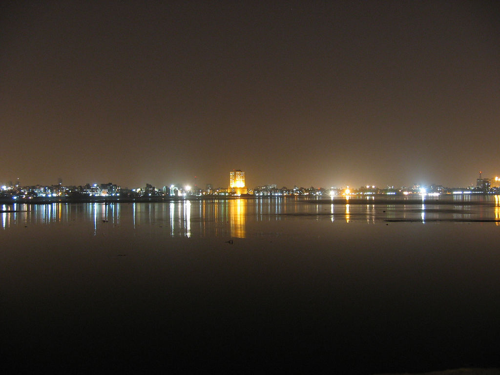 Mumbai as seen from Bandra Reclamation.